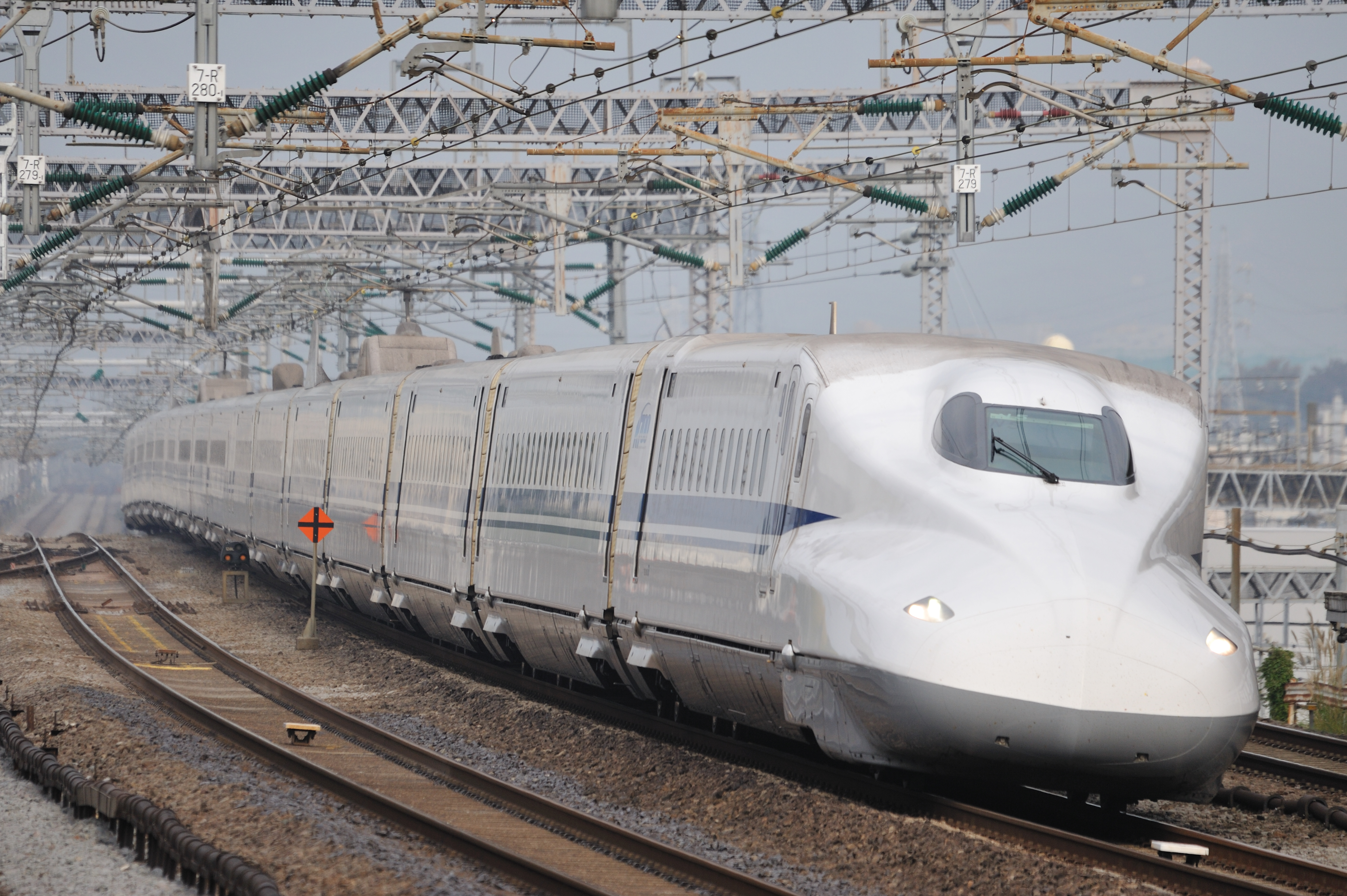 JR West N700-3000 series shinkansen N5 approaching Odawara Station